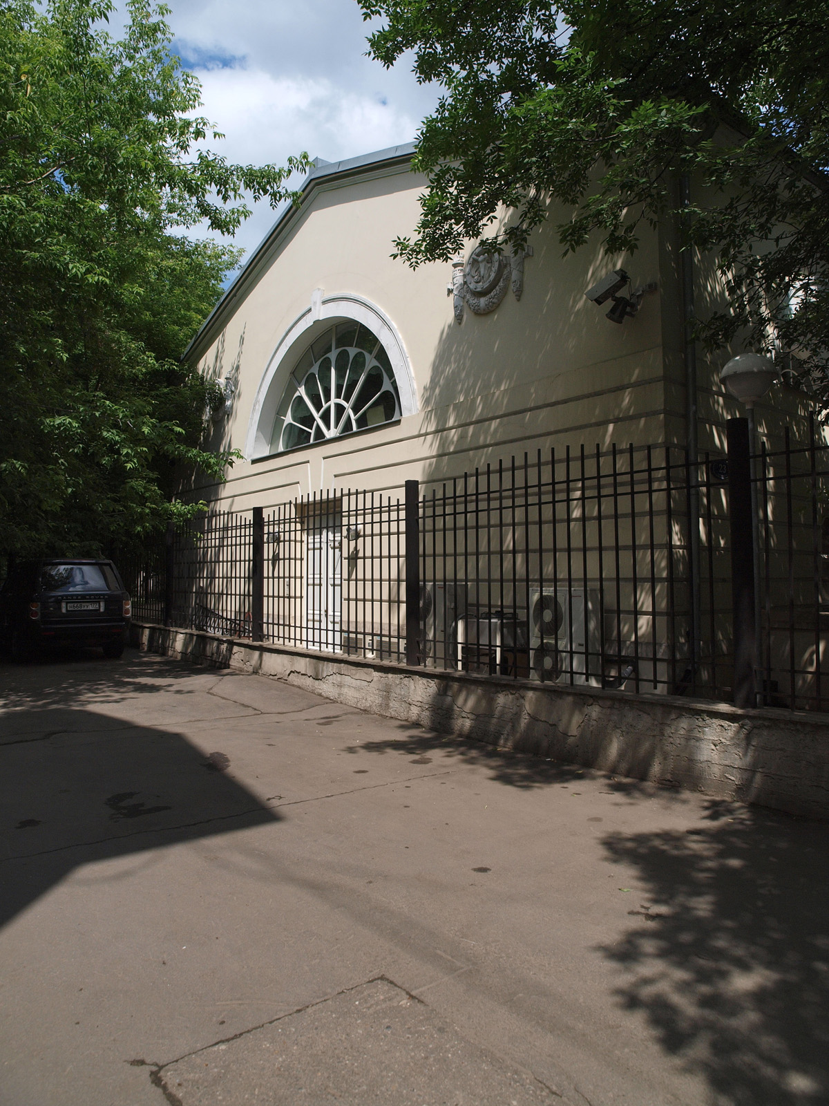 Povarskaya Street, Moscow - riding manege.